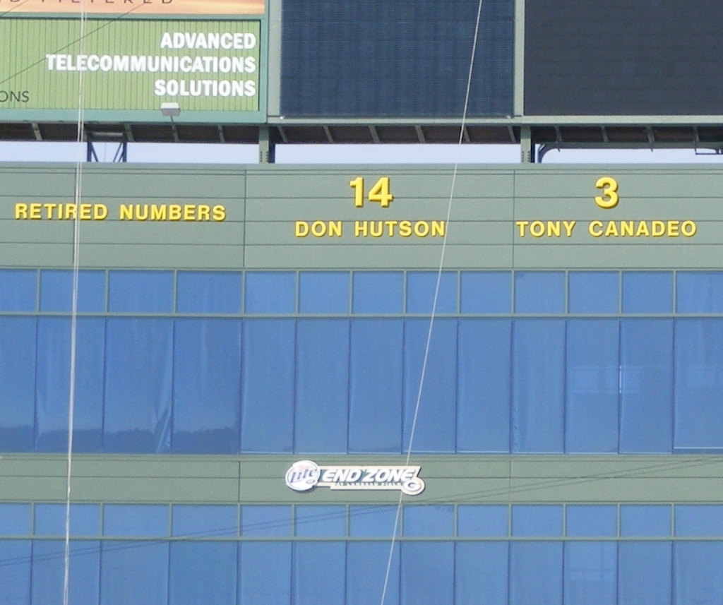 Original description: North end zone at Lambeau Field which displays the Packers retired numbers.